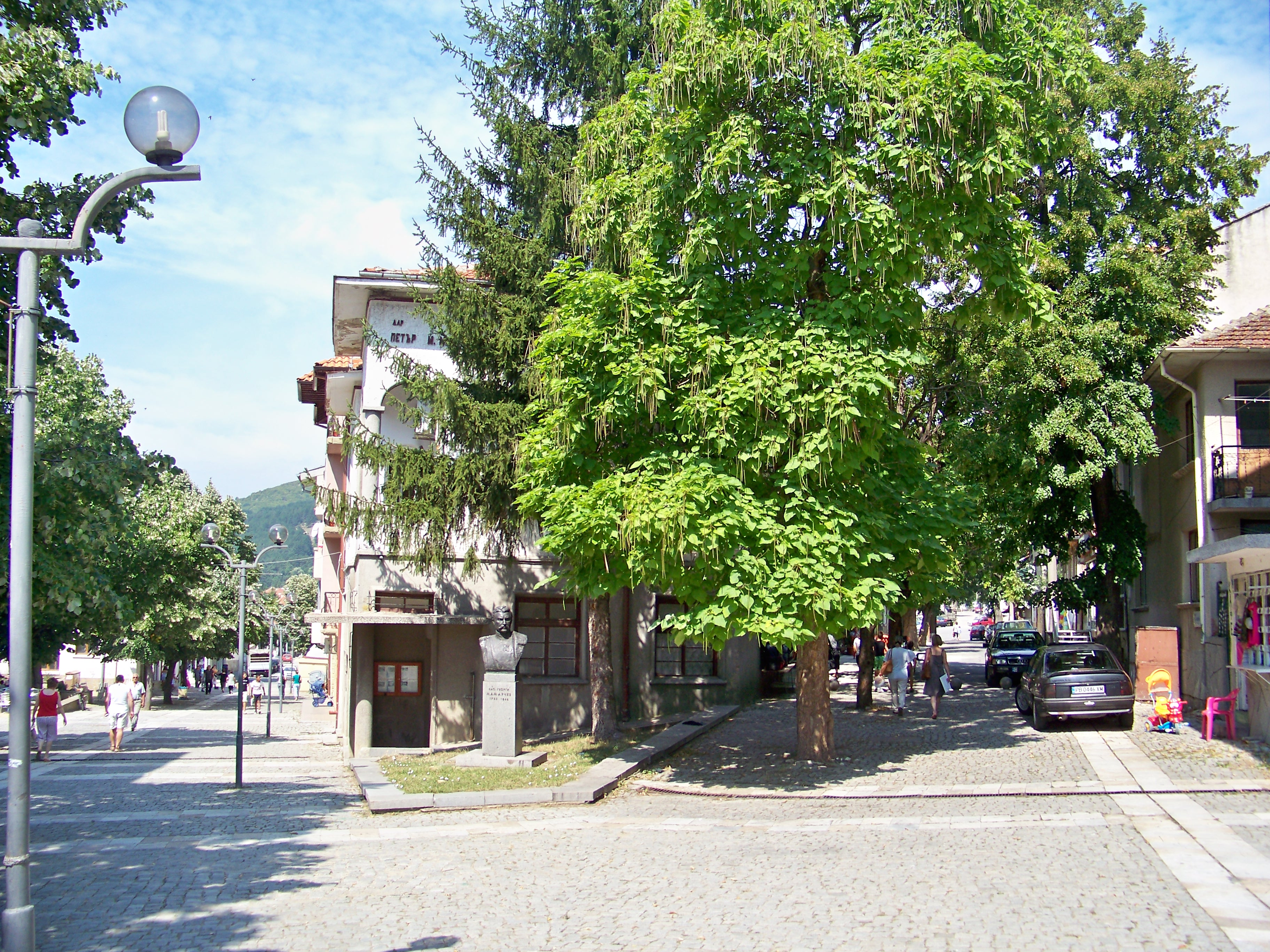 Kotel is a town in central Bulgaria, part of Sliven Province.